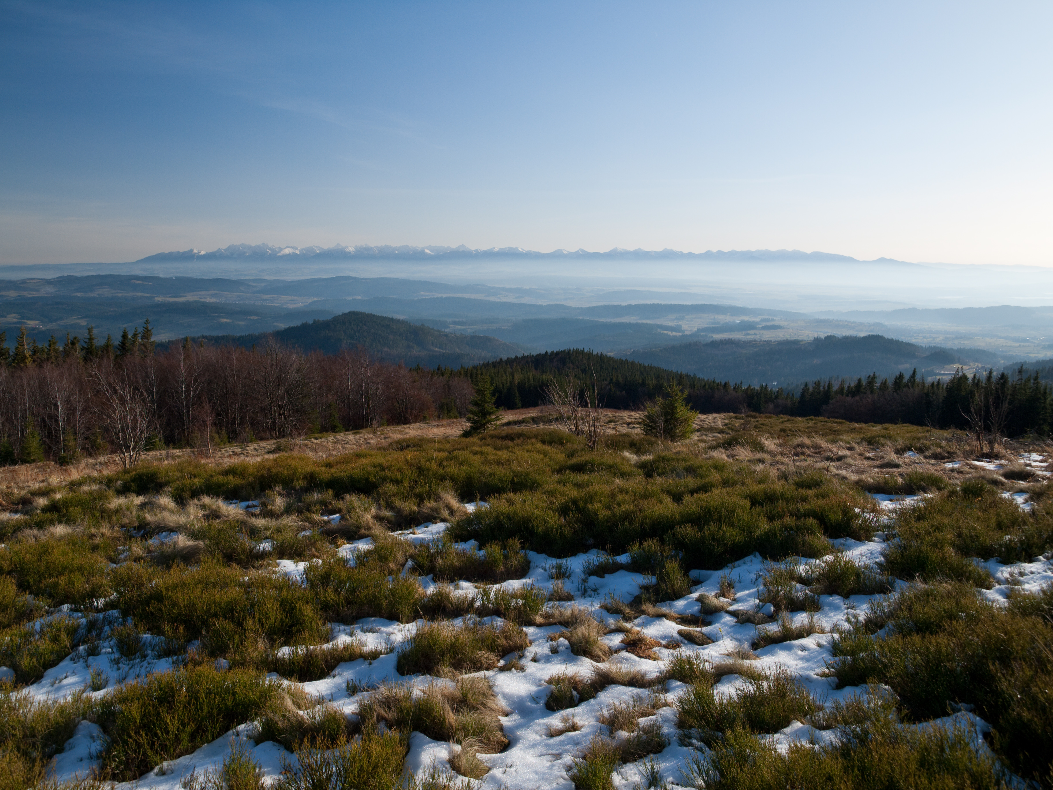 A view of the Tatra Mountains from Hala Krupowa.